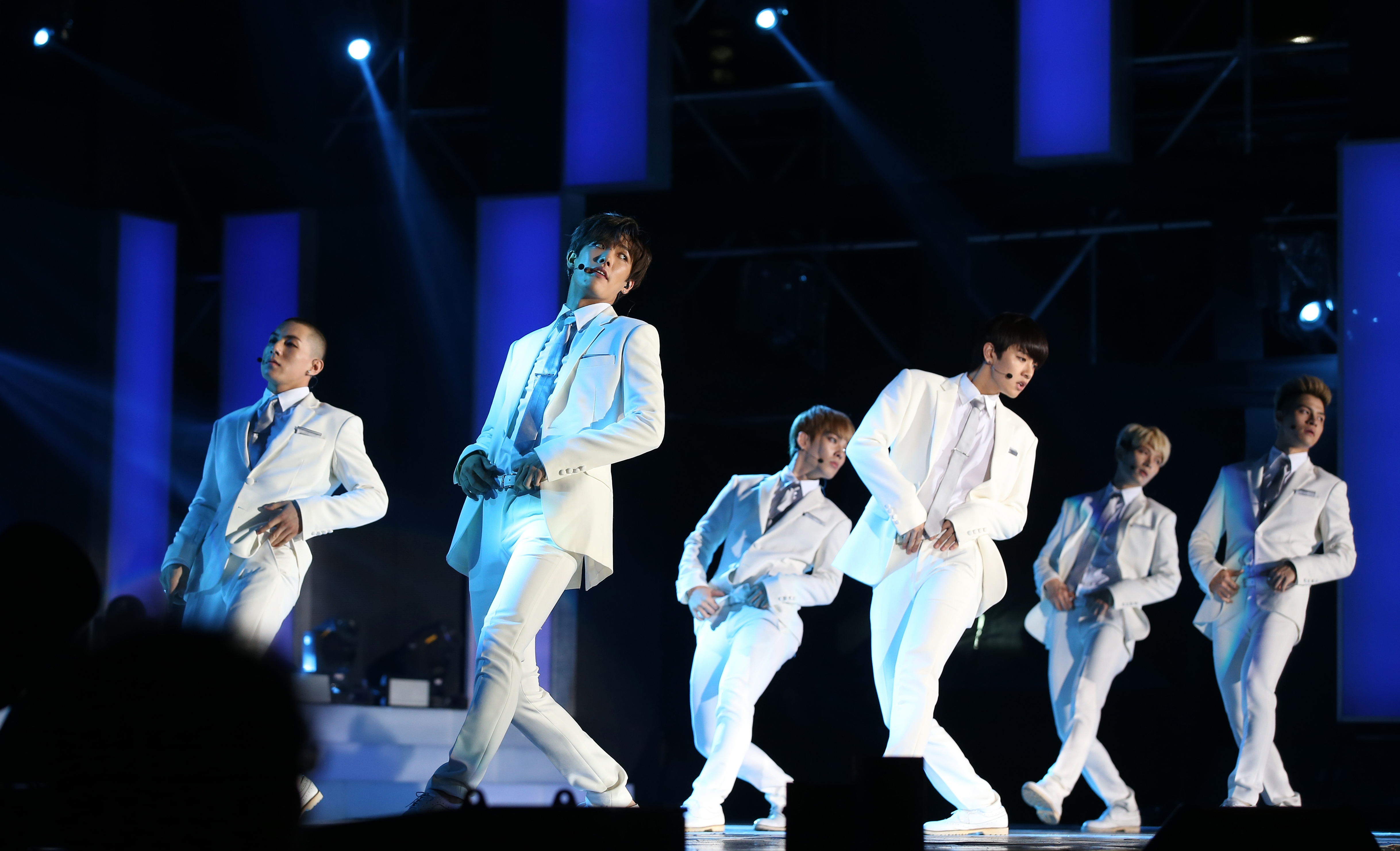 2015 Summer K-POP FestivalAugust 4, 2015Seoul PlazaMinistry of Culture, Sports and TourismKorean Culture and Information ( Photographer : Jeon HanThis official Republic of Korea photograph is being made available only for publication by news organizations and/or for personal printing by the subject(s) of the photograph. The photograph may not be used in any type of commercial, advertisement, product or promotion that in any way suggests approval or endorsement from the government of the Republic of Korea.-------------------------------------------------썸머 K-POP 페스티벌2015-08-04문화체육관광부해외문화홍보원코리아넷전한